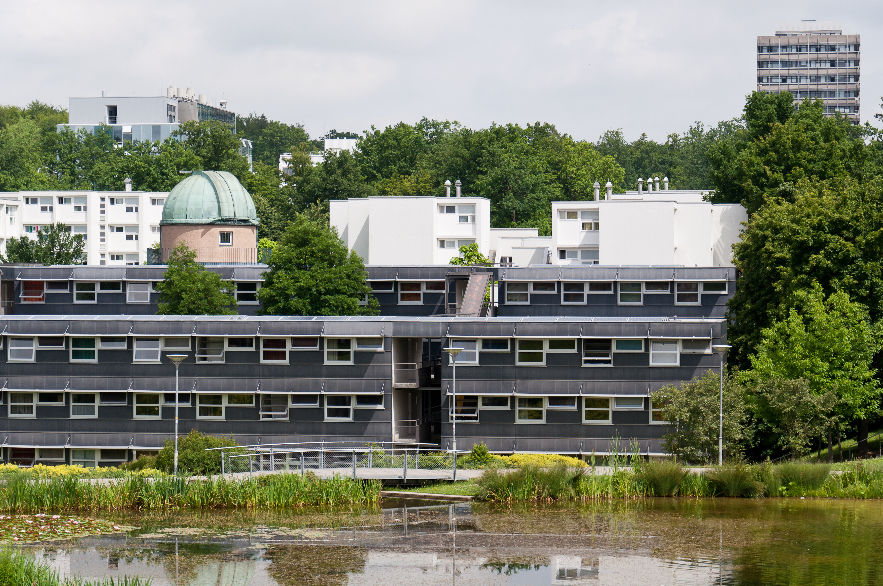 The dormitory "Pfaffenhof II" on the campus of the University of Stuttgart, Germany.